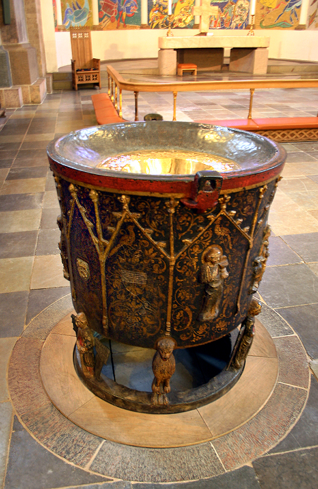 Baptismal font of Ribe cathedral, Denmark.